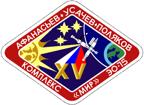 The official crew patch for the Russian Soyuz TM-18 mission, which delivered the EO-15 crew to the space station Mir.